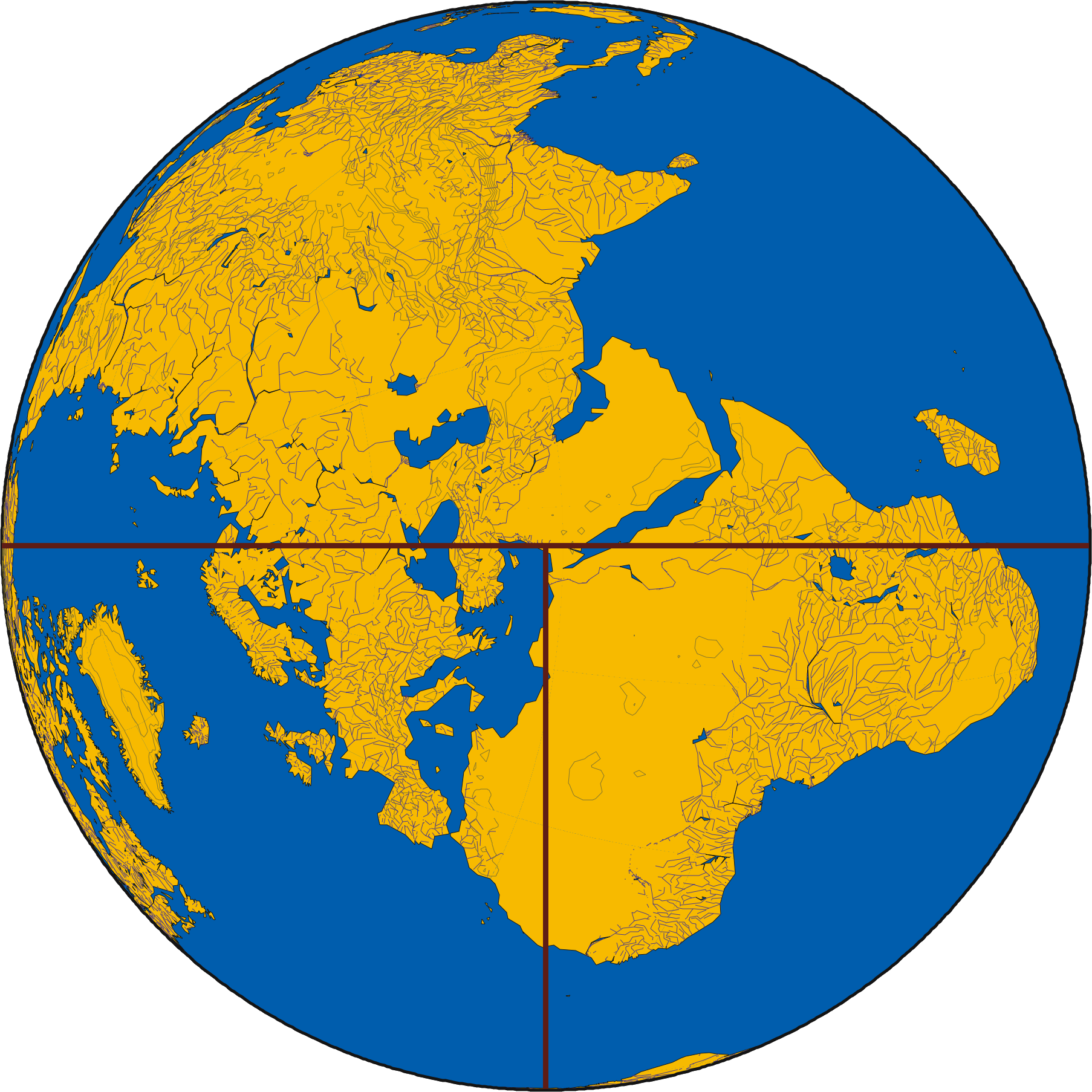 A modern orthographic map centered on Jerusalem, with [south-]east pointing up. Made for article T and O map, since those maps were also drawn this way.